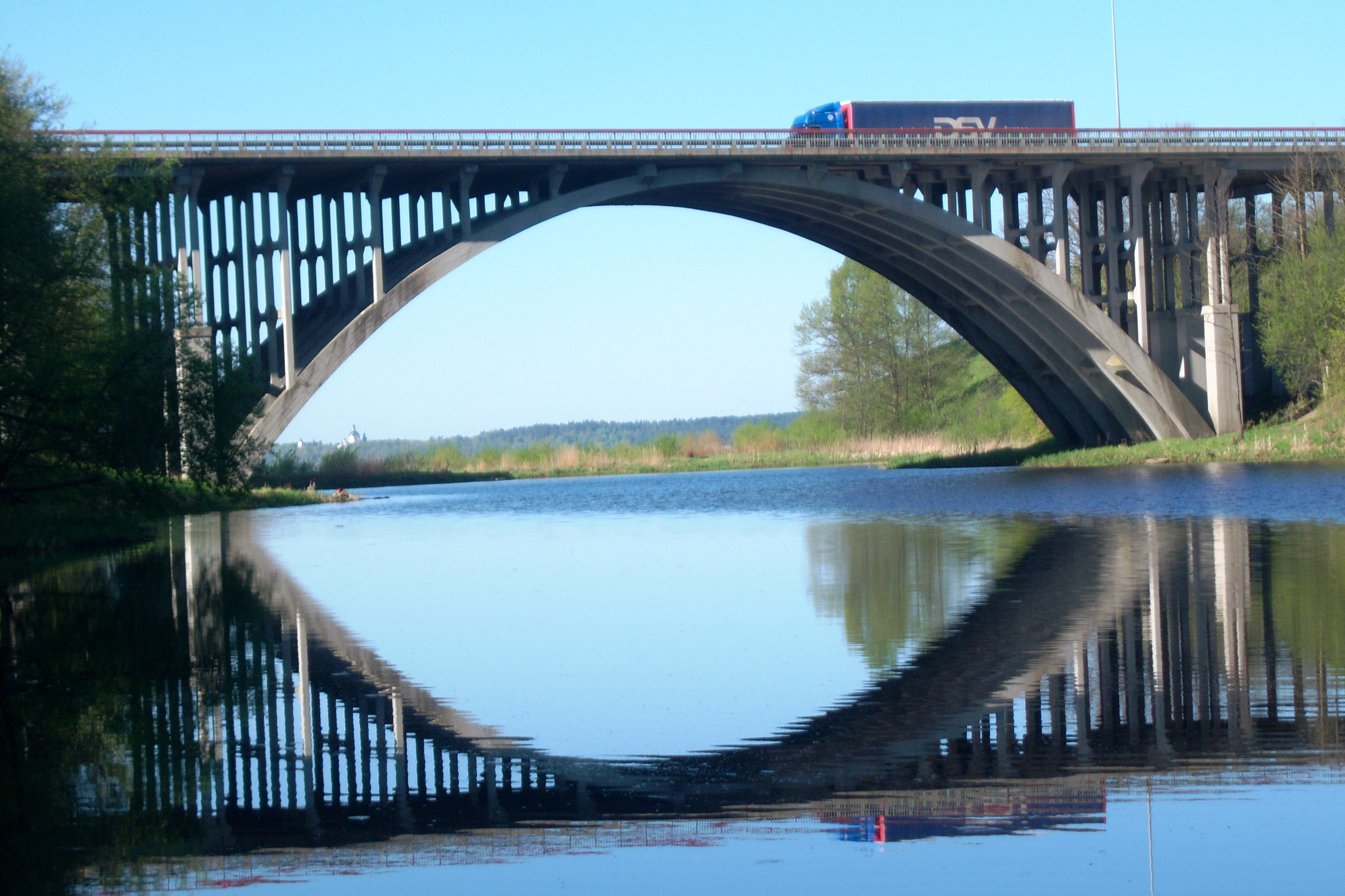 Arch bridge by Kaunas Reservoir, highway Vilnius-Kaunas, River Kruna, Lithuania